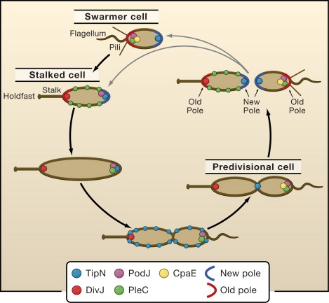 PodJ protein (purple) is at the flagellar pole, while DivJ protein (red) is at the stalk.TipN is found at new poles (newly septated).